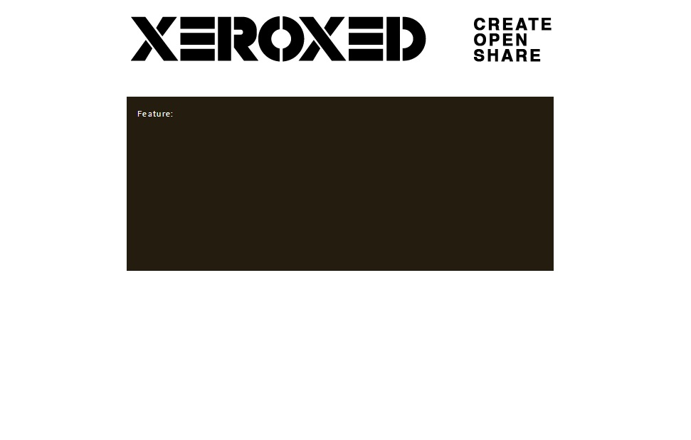 Situs webzine Xeroxed.